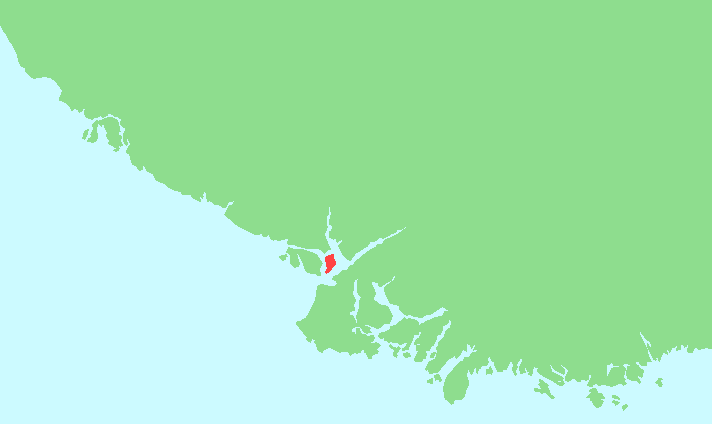 Locator map of Andabeløy, Vest-Agder, Norway